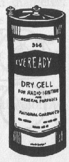 Dry cell of National Carbon Company, ca.1913.